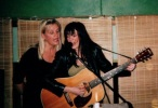 Meredith Brooks sitting in with Elisabeth Carlisle and singing Bitch in Malmö, Sweden